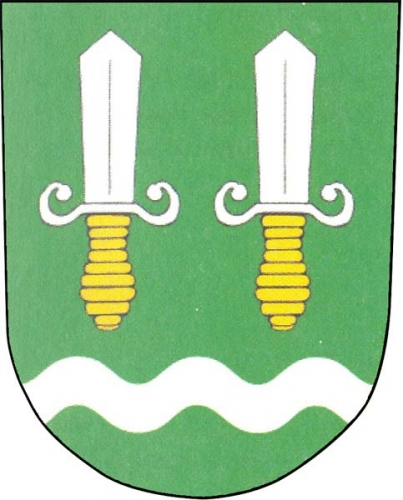 Lomnička CoA CZ